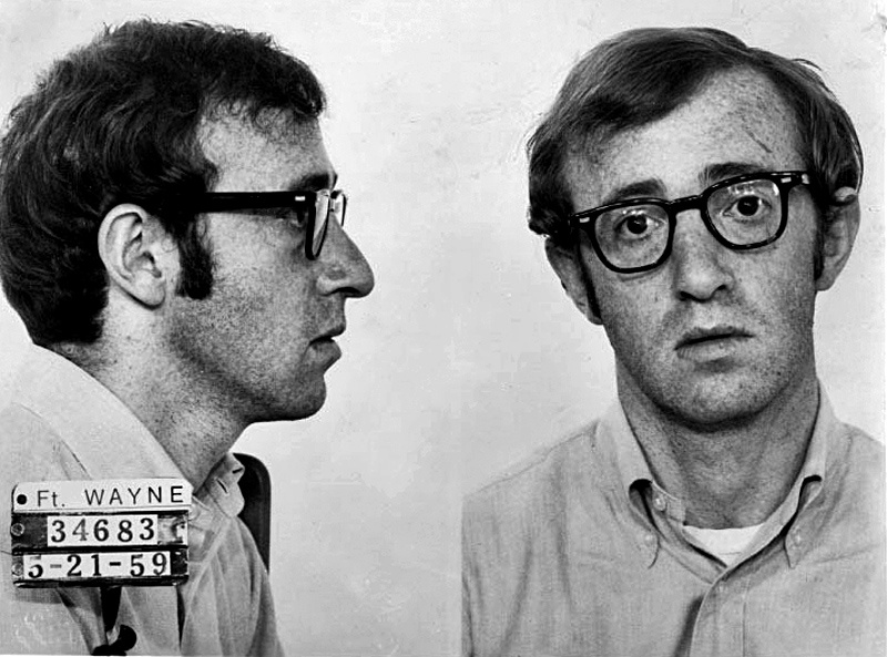 Publicity still of Woody Allen for film, Take the Money and Run.